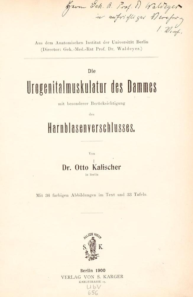 Title page of Otto Kalischer's work (signed by the author)